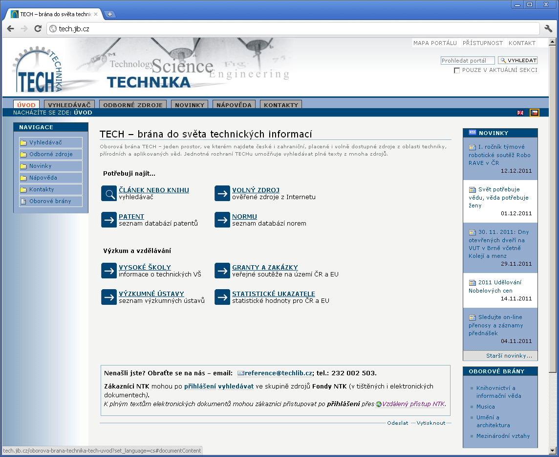 Technika The Subject Gateway, main page